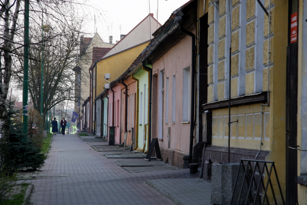 Słońsk, Poland